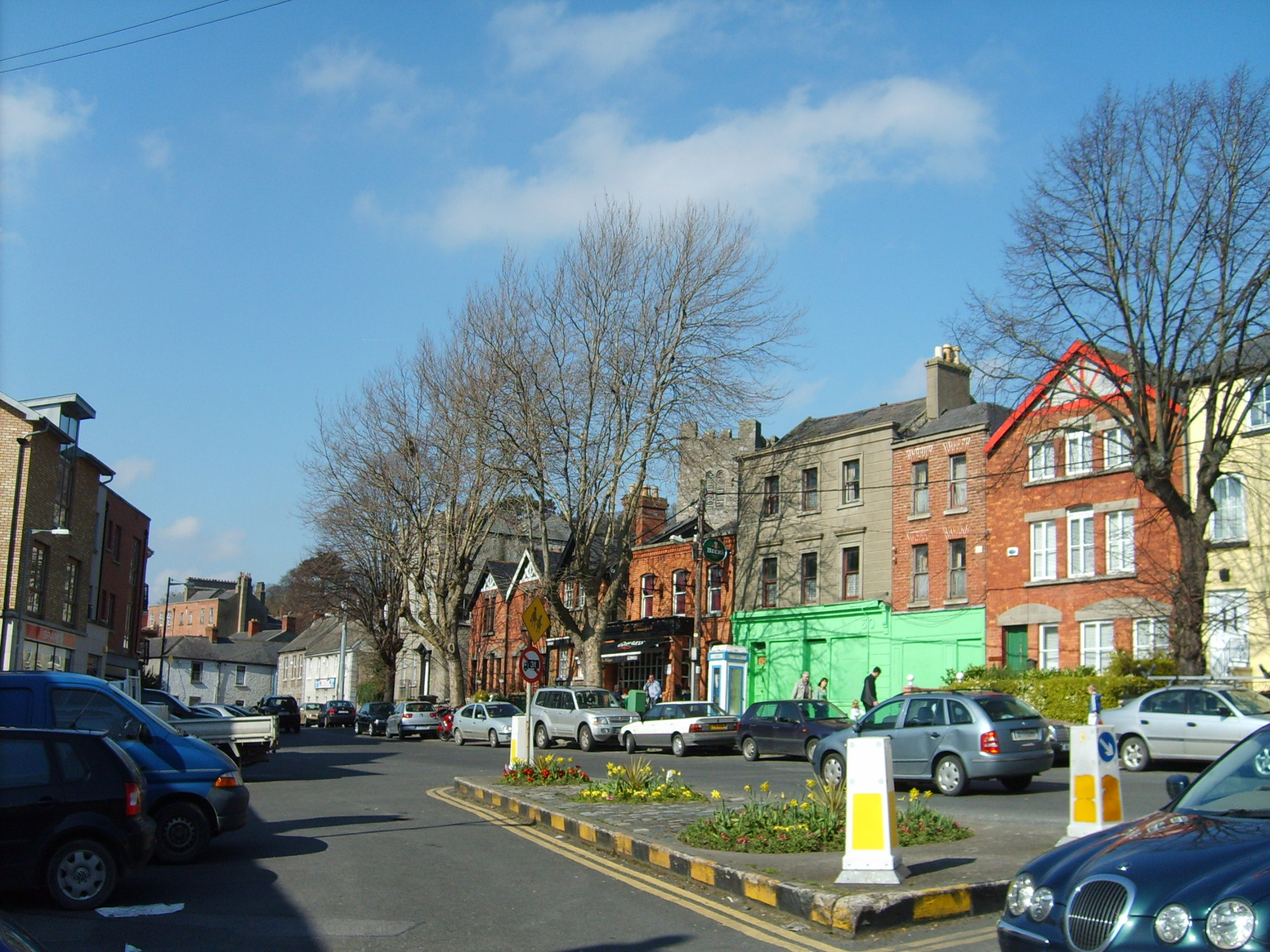 Author is me, picture is of Chapelizod Village